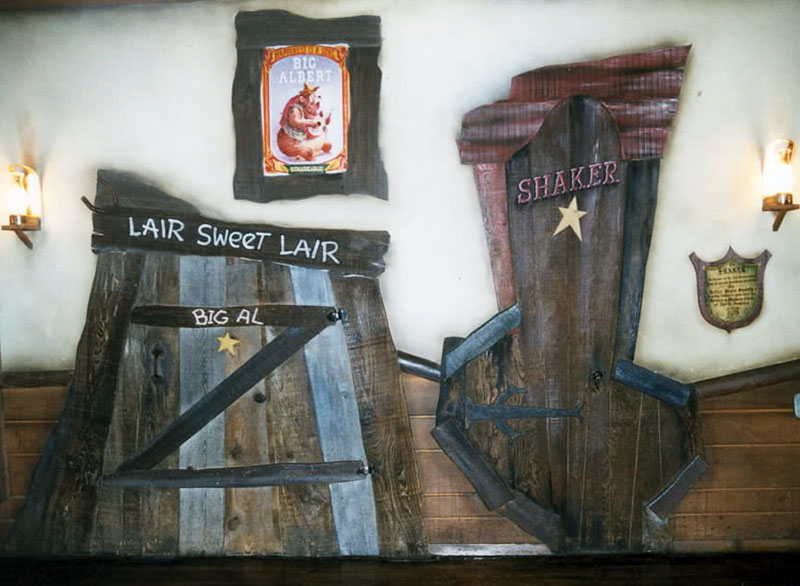 Bear Country Jamboree entrance 2000 Disneyland Taken by Ellen Levy Finch (User:Elf)